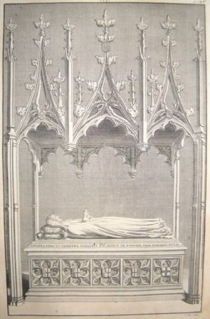 Engraving of monument to Philippa de Mohun (d.1431), Duchess of York in Westminster Abbey. 1723 engraving published in Dart, John, Westmonasterium, or, The History and Antiquities of the Abbey Church of St Peter, Westminster, London, 1723. Paper size: 15 * 10 inches